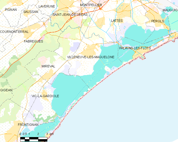 Map commune FR insee code 34337.png - Villeneuve-lès-Maguelone